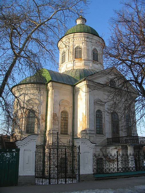 Saint John the Evangelist Church